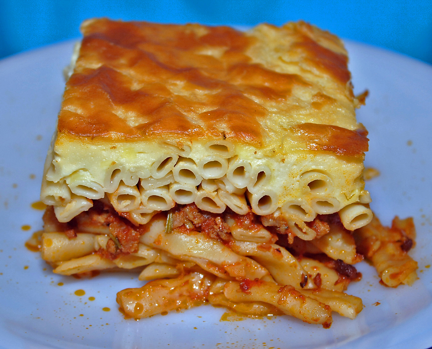 Pastitsio - noodle souffle with macaroni and ground meat